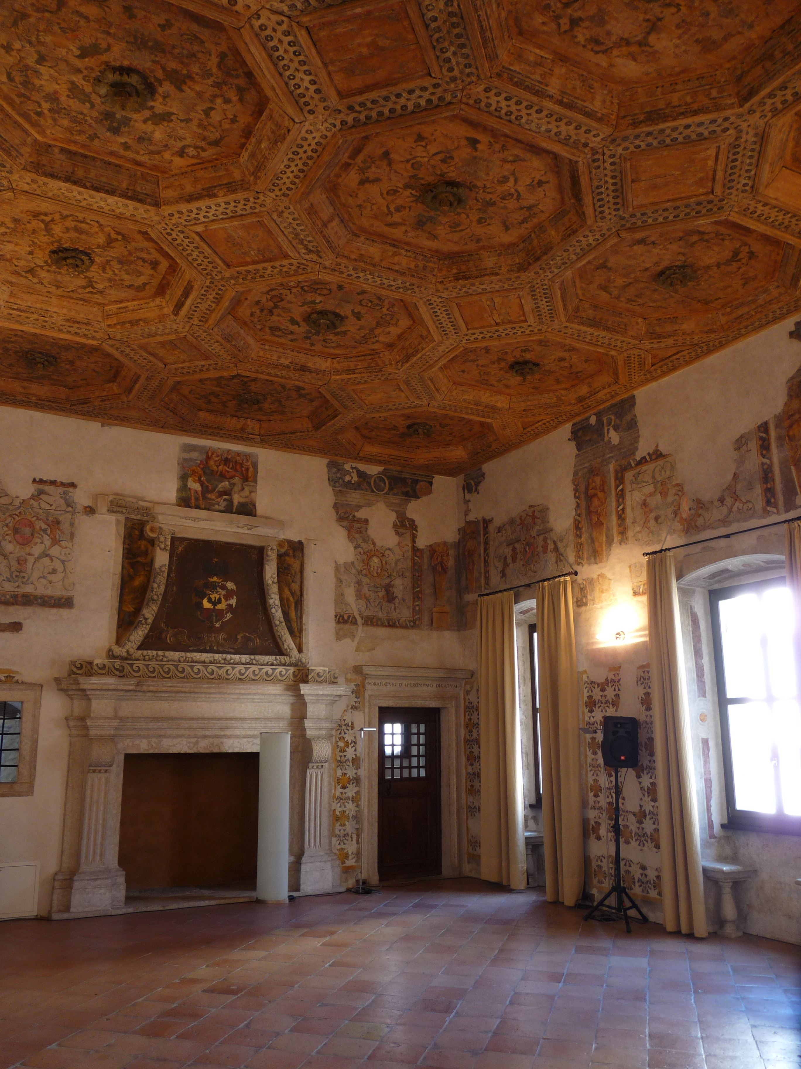 Trento (Italy): main salon at the first floor of Palazzo Roccabruna ("Sala del Conte di Luna")